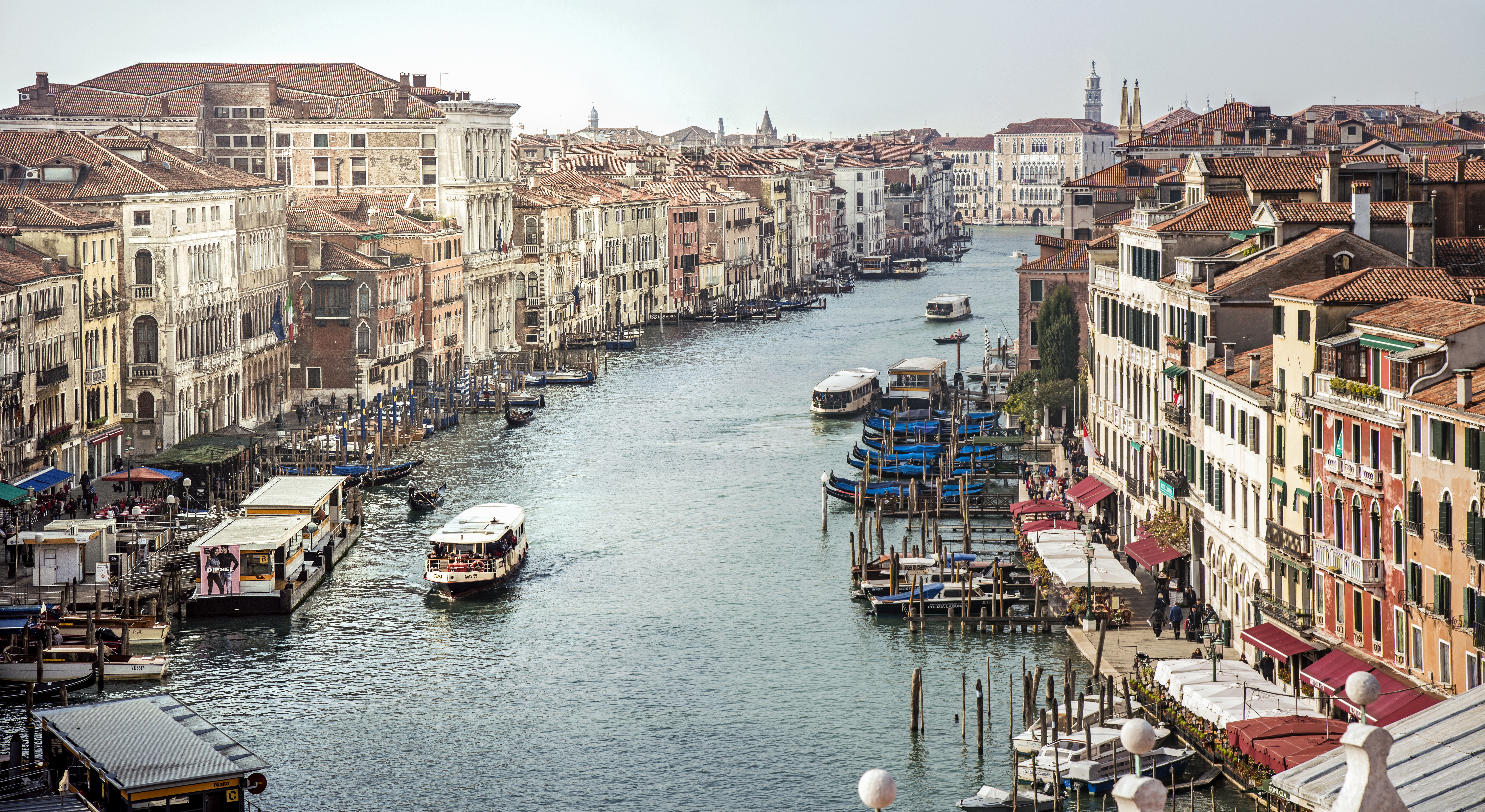 The Grand Canal, in Venice - View from the Rialto towards the south-west.